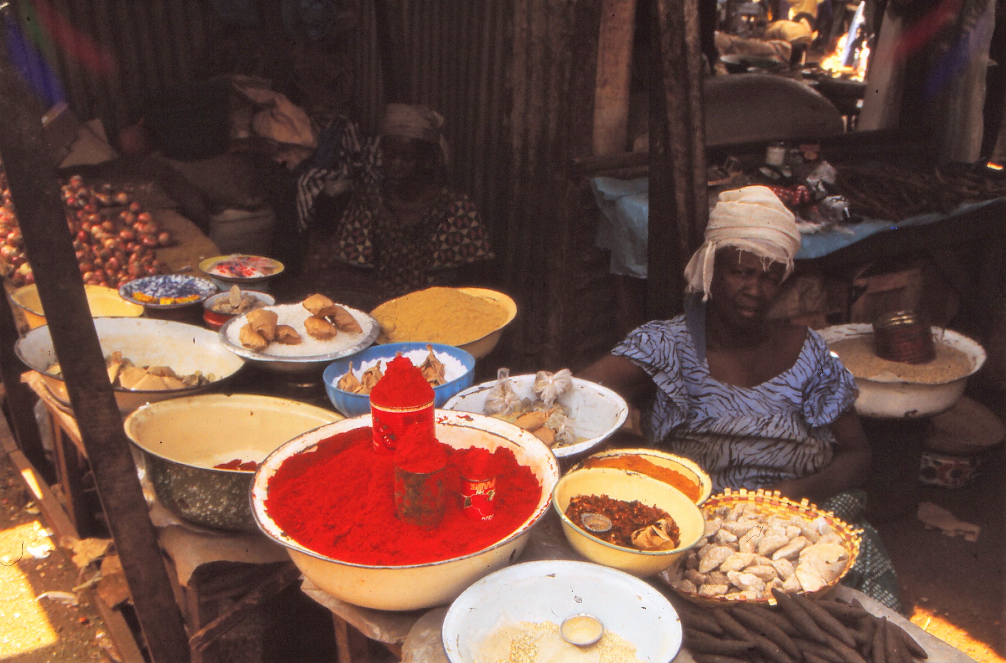 Various condiments at Sangha market, Mali 1992. African red pepper powder.